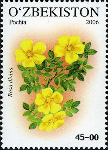 Stamps of Uzbekistan, 2006